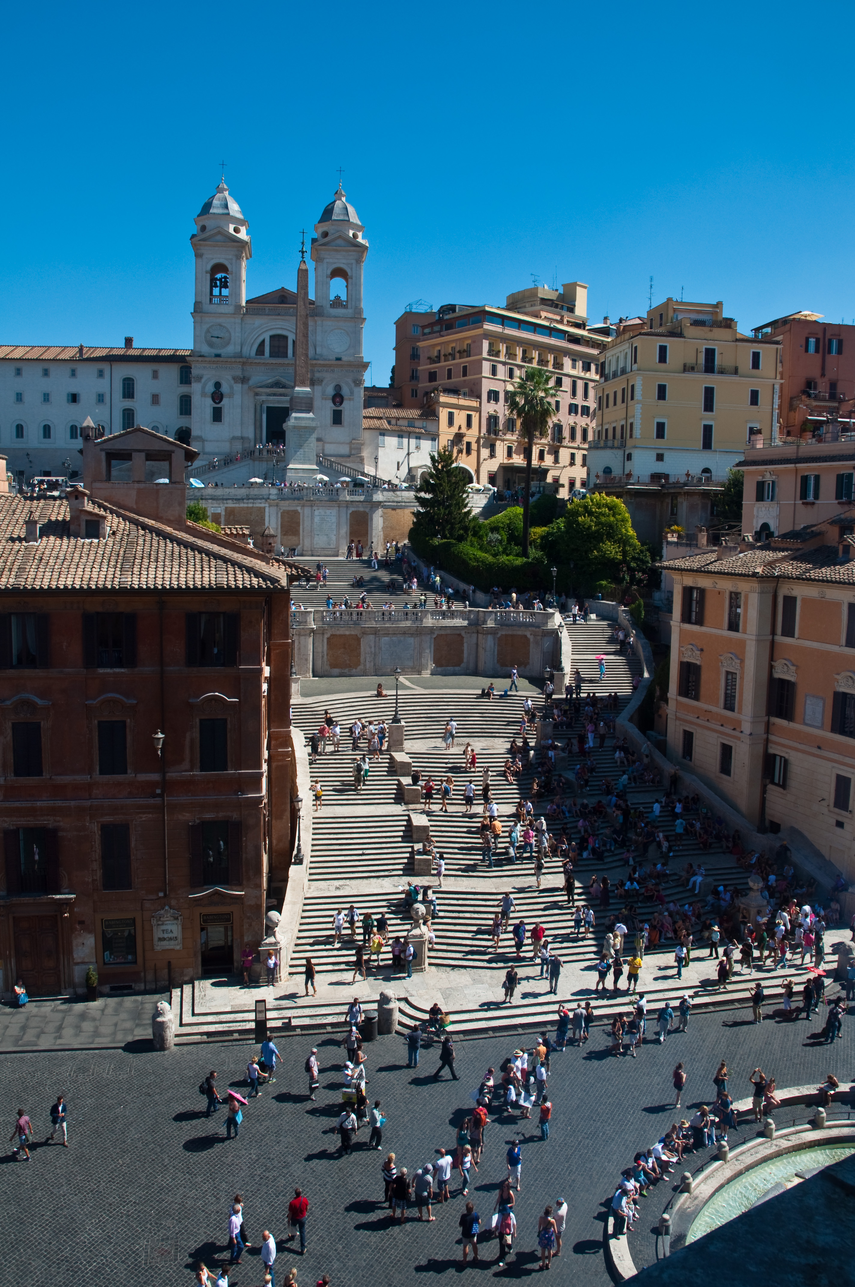 Spanish Steps, Rome, Sept. 2011